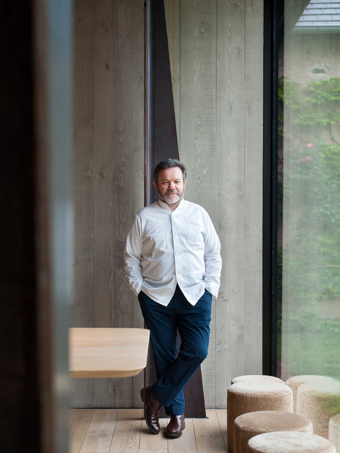 Michel Troisgros